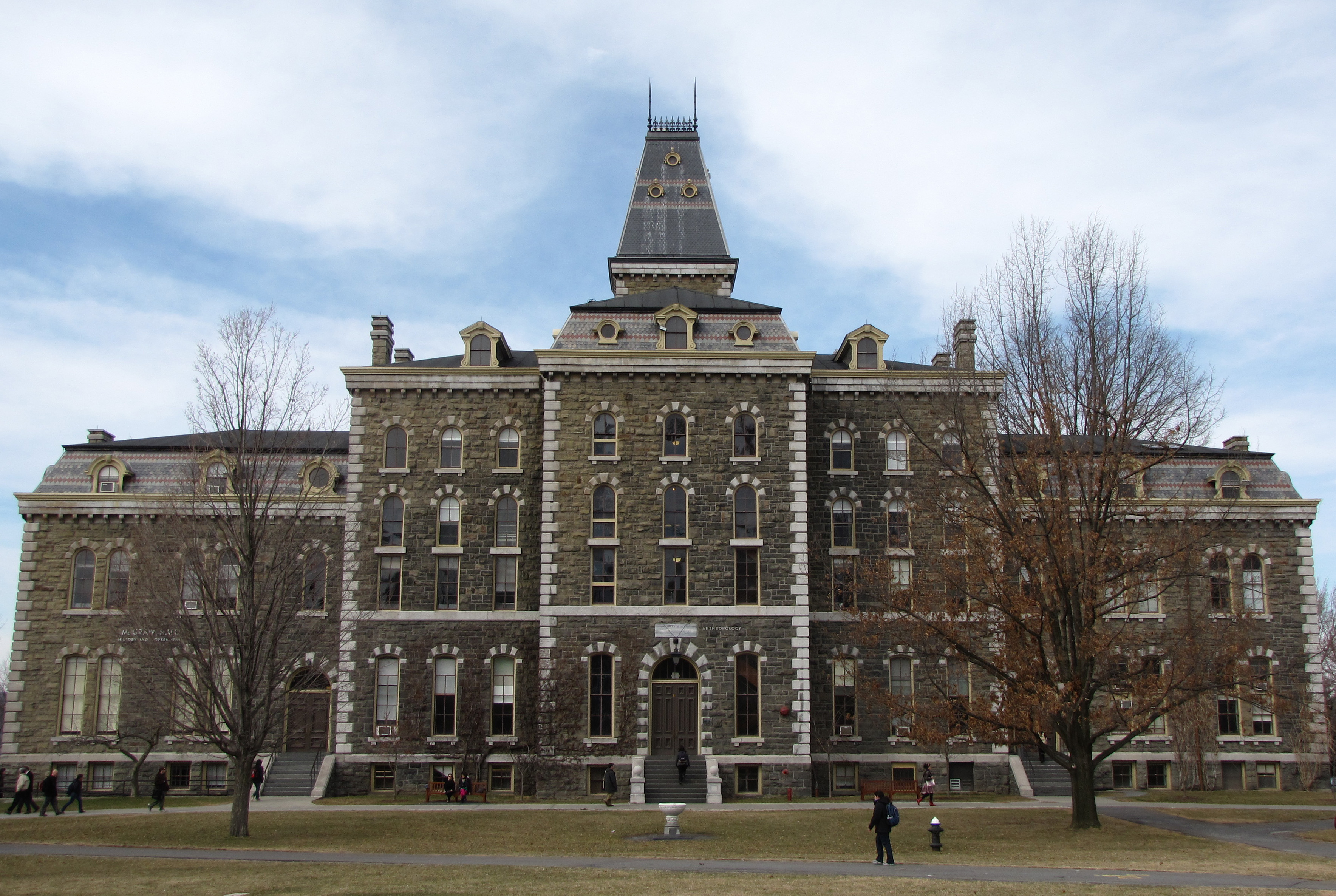 Eastern face of McGraw Hall (article does not yet exist) at Cornell University.